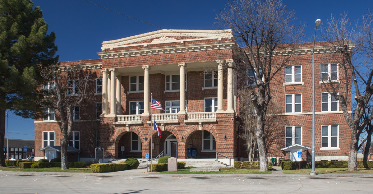 Brown County Courthouse in Brownwood, Texas